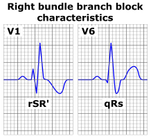 The characteristic wave patterns of a typical right bundle branch block as seen in an ECG. Only the precordial lead V1 and V6 are shown. Wide QRS complexes are present and there's T wave inversion in lead V1 which is normal in this condition. Note the typical wide and deep s wave in V6. The small q wave in V6 may not always be present. Below each QRS complex is its designation (rSR and qRs) according to nomenclature.